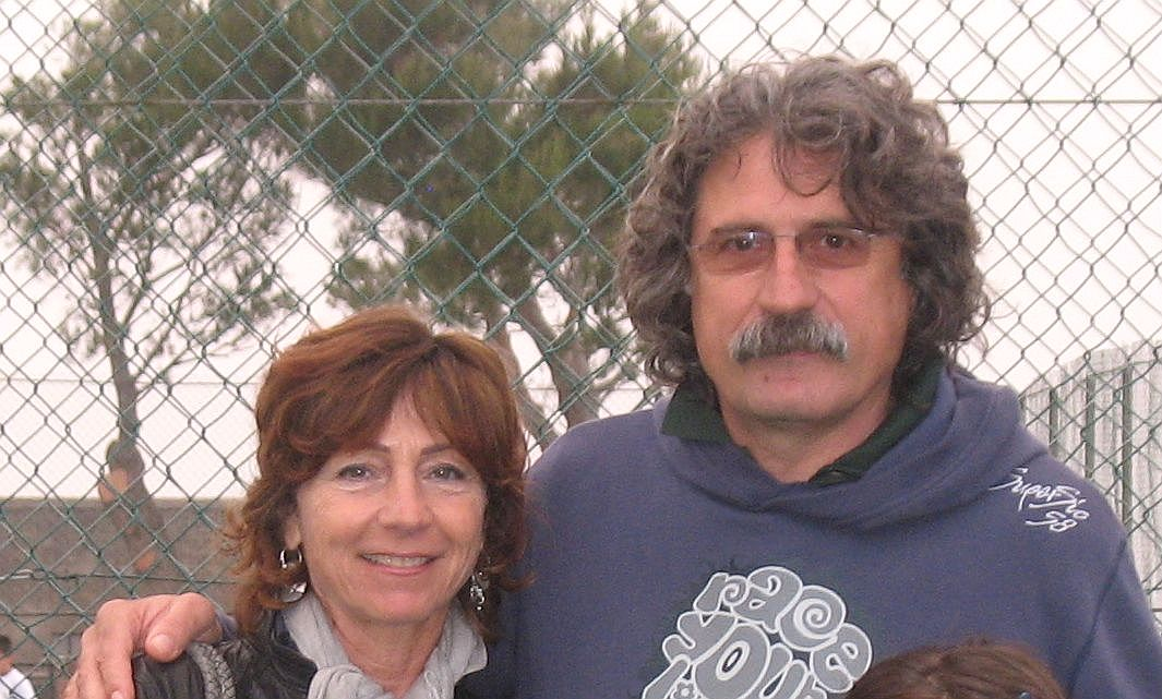 Marco Simoncelli Parents